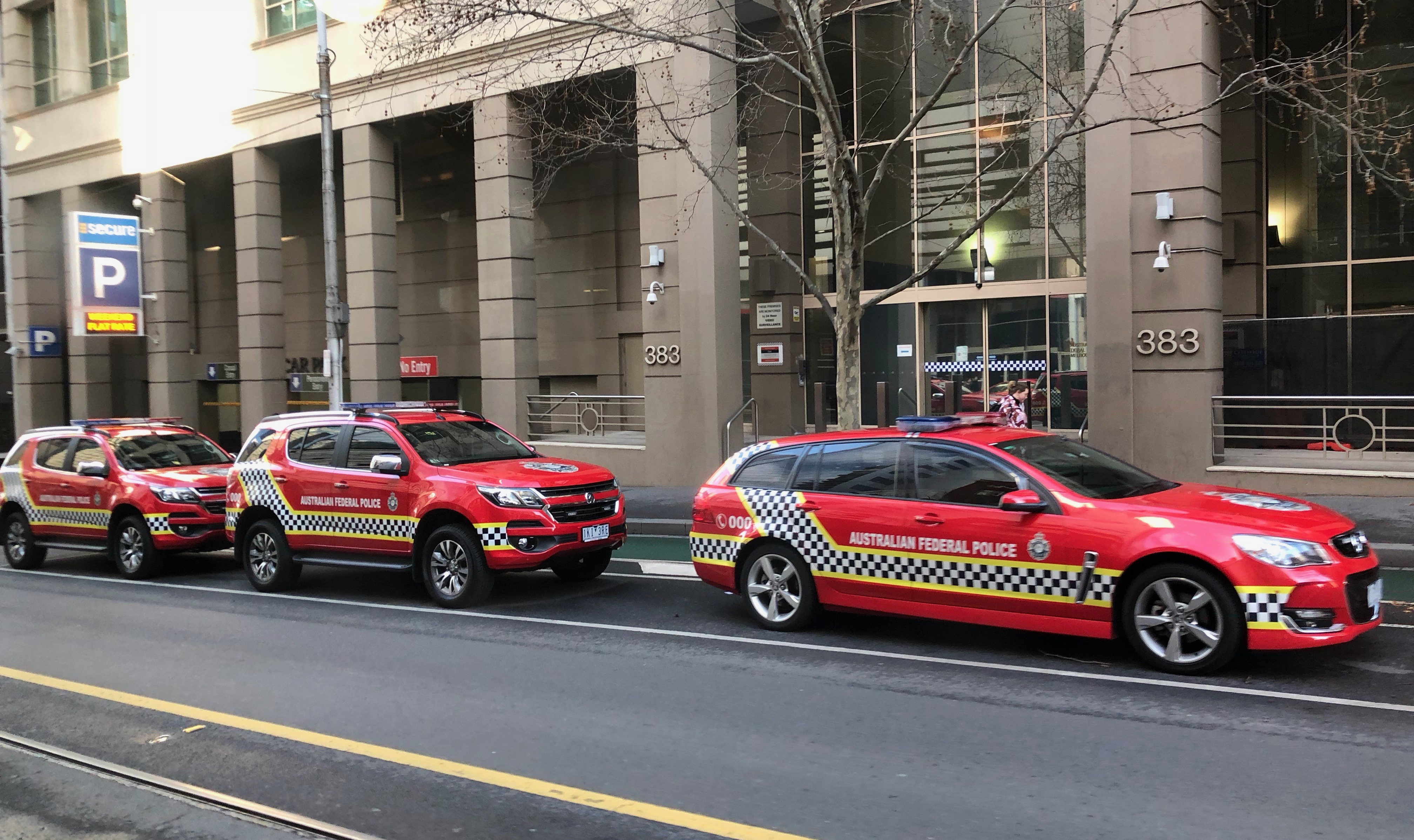 AFP vehicles in Melbourne